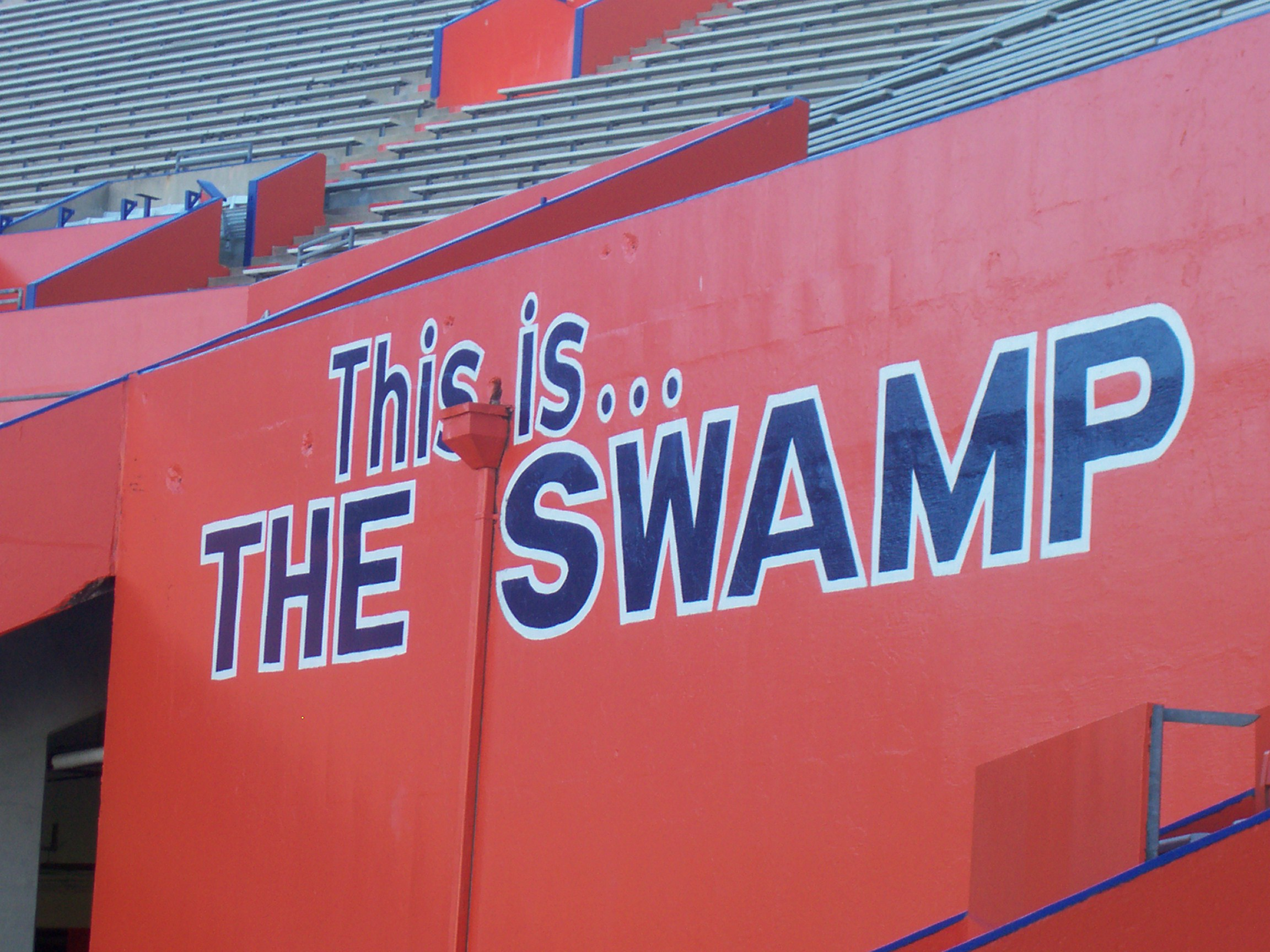 This is a picture of the "This is the Swamp" sign at Ben Hill Griffen Stadium in Gainesville, Florida.